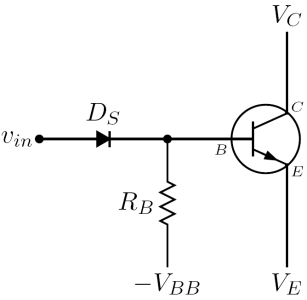 Self-made work, released to public domain.